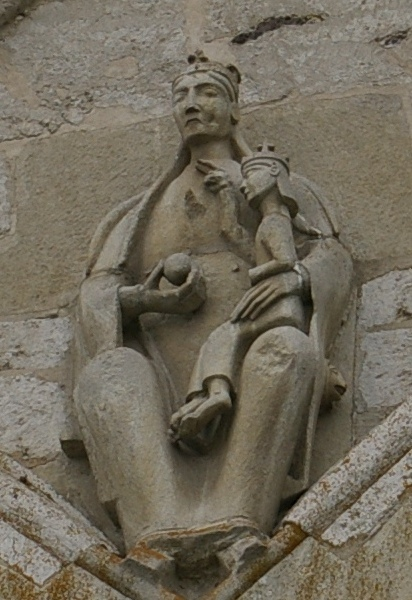 Church of St. Nicholas in Wysocice, Poland